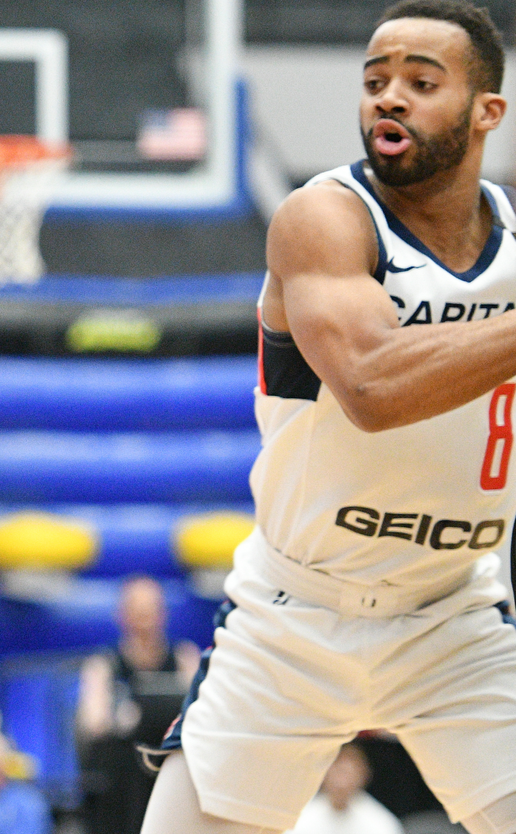 Andrew Rowsey. Lakeland Magic vs Caoital City Go-Go. RP Funding Center. Lakeland, Fla. Feb. 1, 2020. (Photo by Tom Hagerty.)